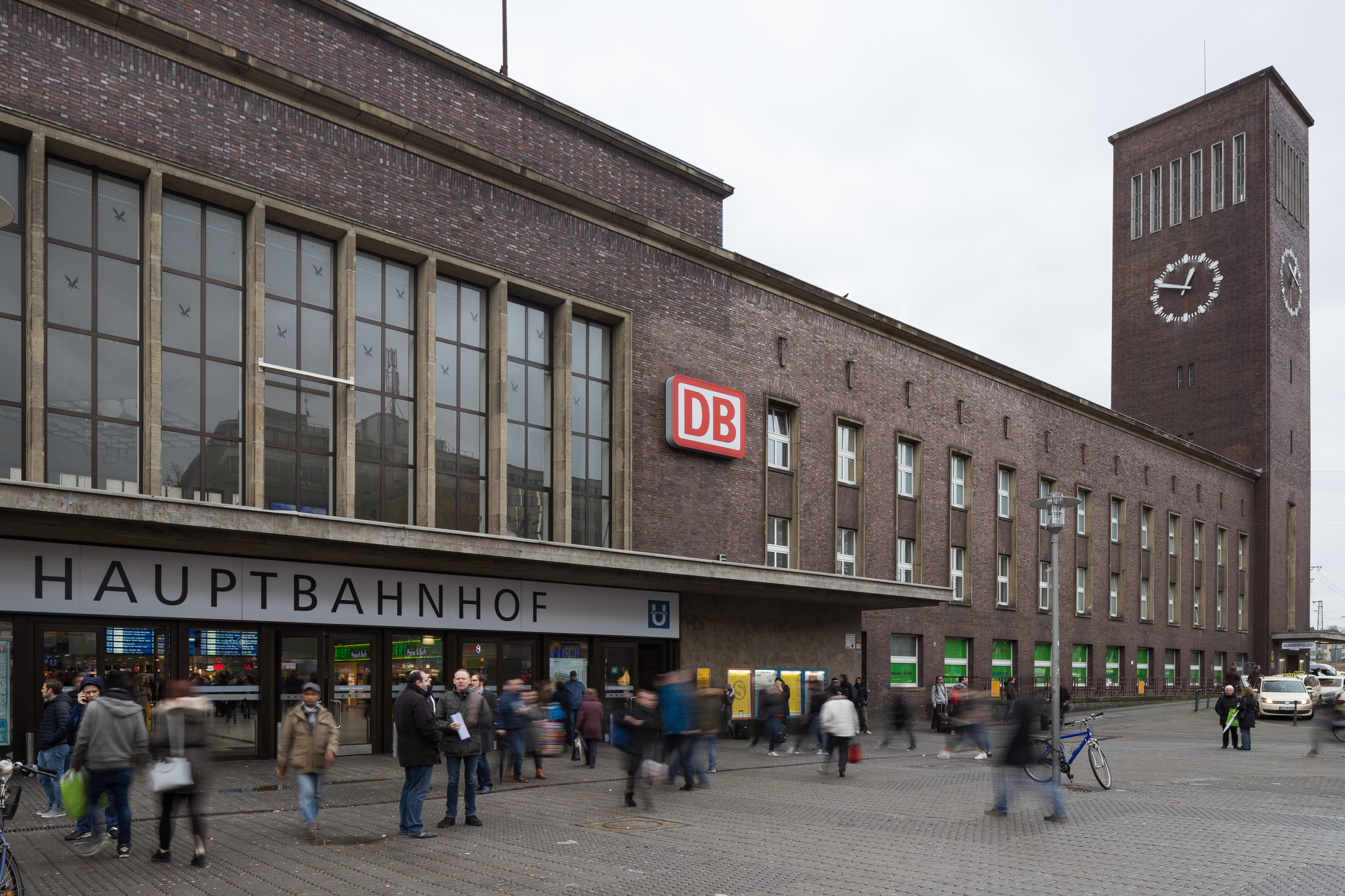 Duesseldorf main station located at Konrad-Adenauer-Platz square in Stadtmitte quarter of Duesseldorf, Germany.